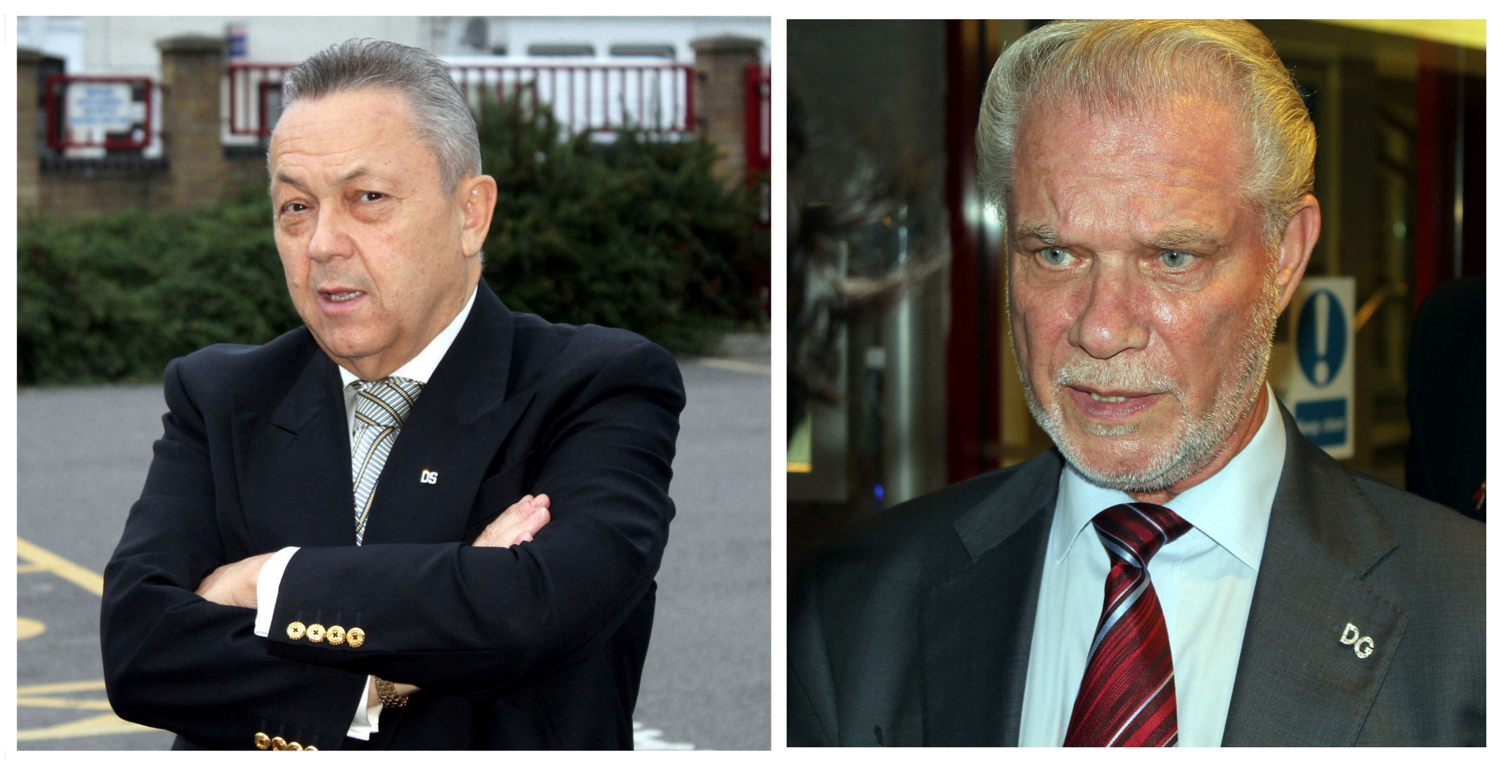 West Ham United co-owners, David Sullivan and David Gold (Photos taken Boleyn Ground, 21 Aug 2010)